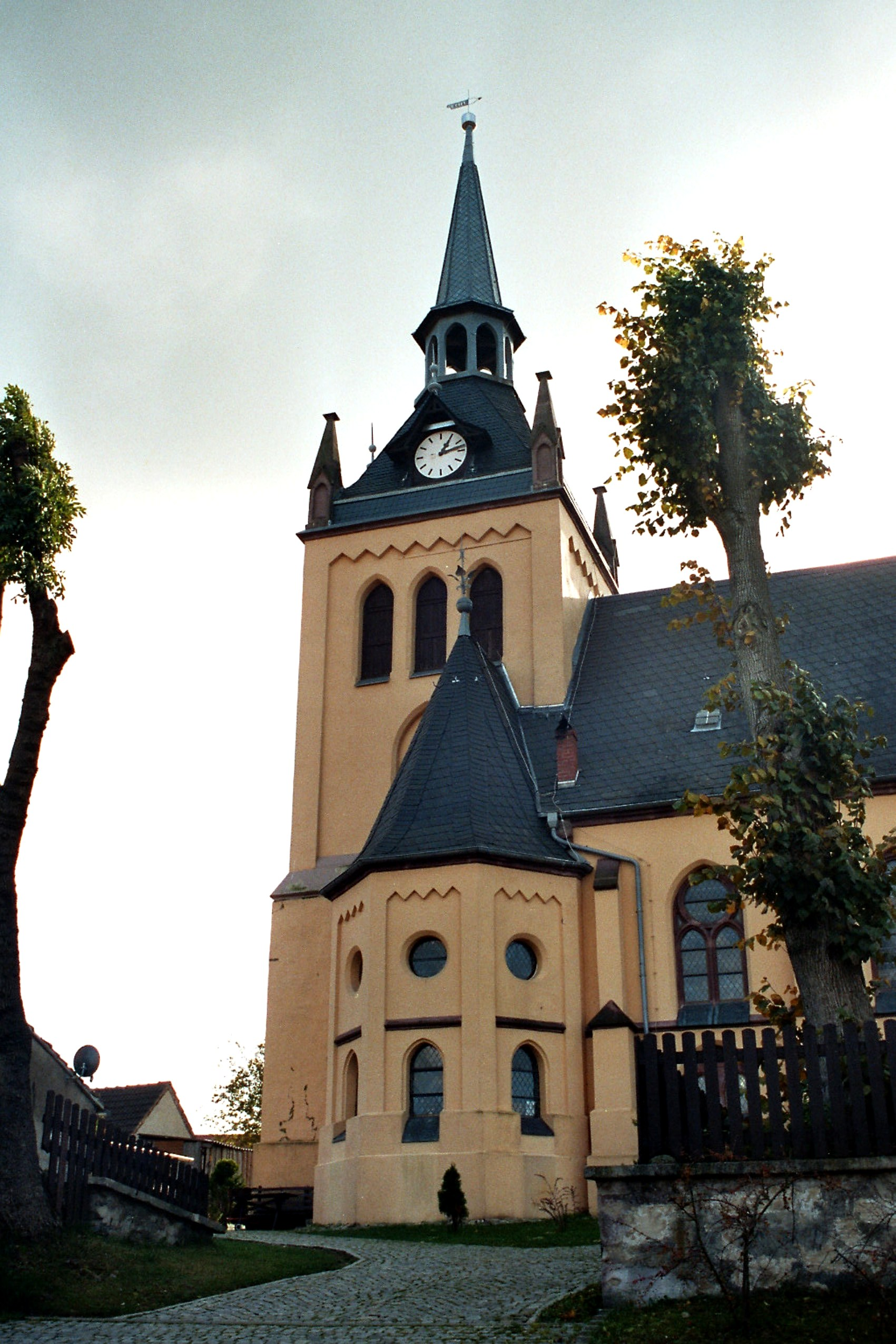 Hayn (Südharz), the village church St. JohnThis is a photograph of an architectural monument. 83928